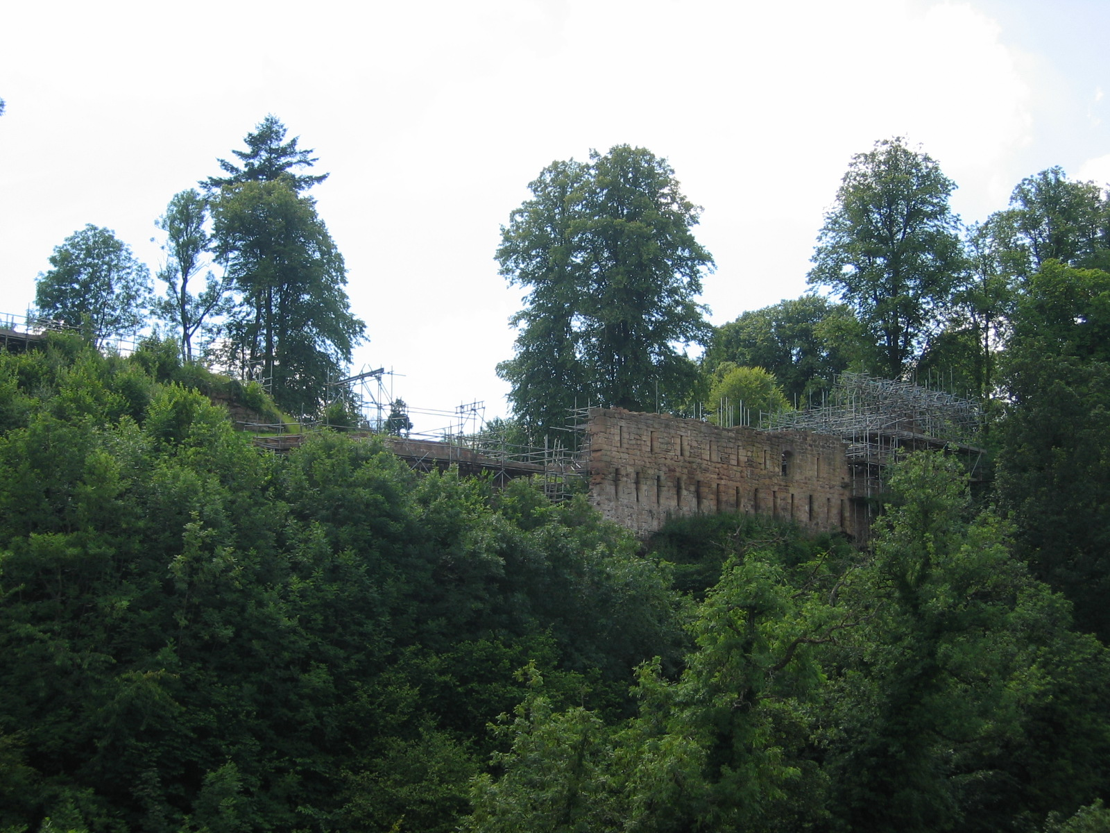 Cadzow Castle, near Hamilton, Scotland. View across the Avon Gorge from the Duke's Bridge. Taken by User:Supergolden on 17th July 2006.